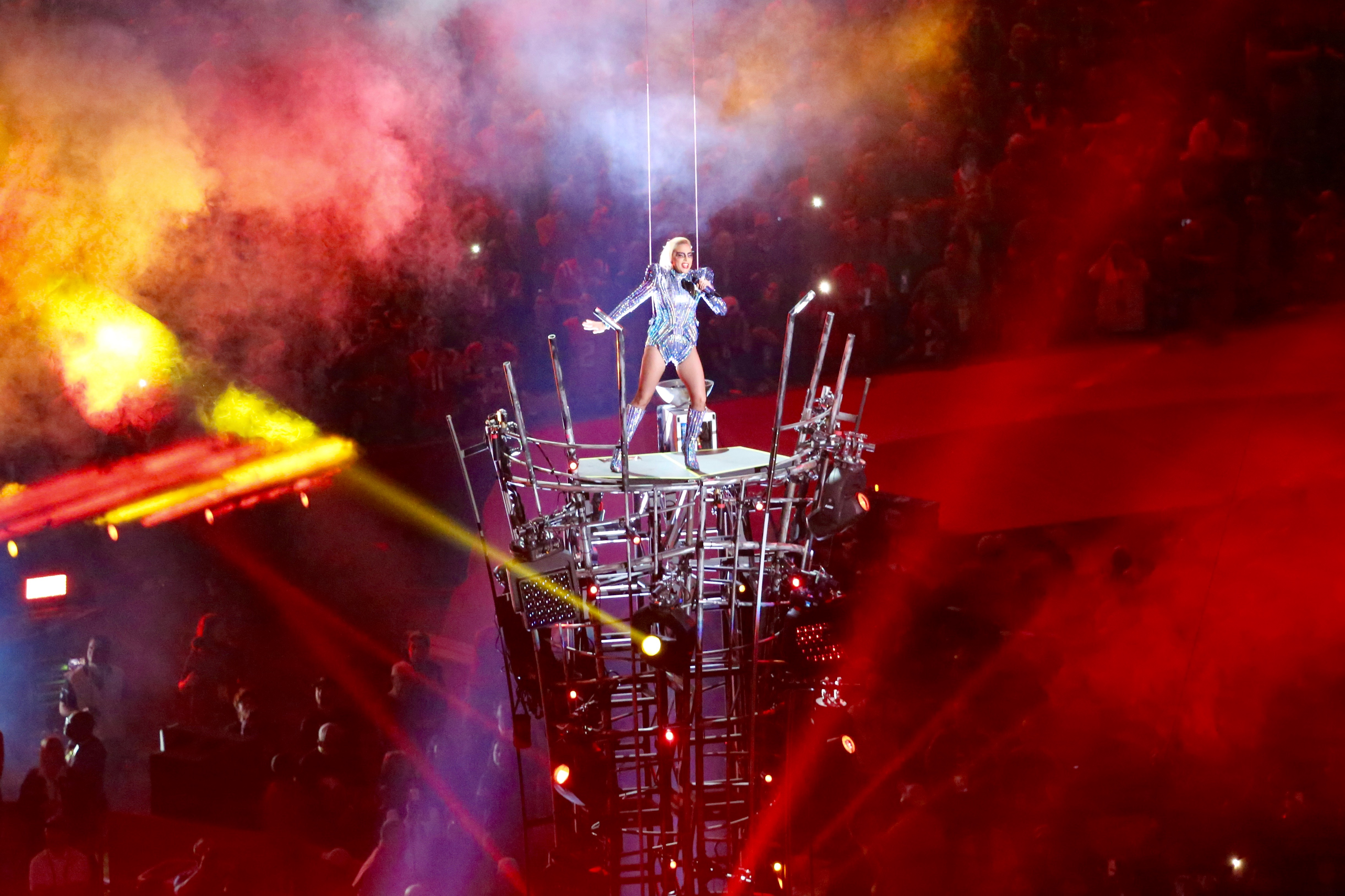 Lady Gaga performs "Poker Face" during the Super Bowl LI halftime show.